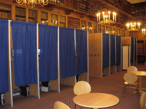 Voting booths used for the L’Ordre des Avocats de Paris (Paris Bar Association) 2007 election. The booths are in the library of the Palais de Justice, Paris and contain Internet-enabled touch screen voting systems.